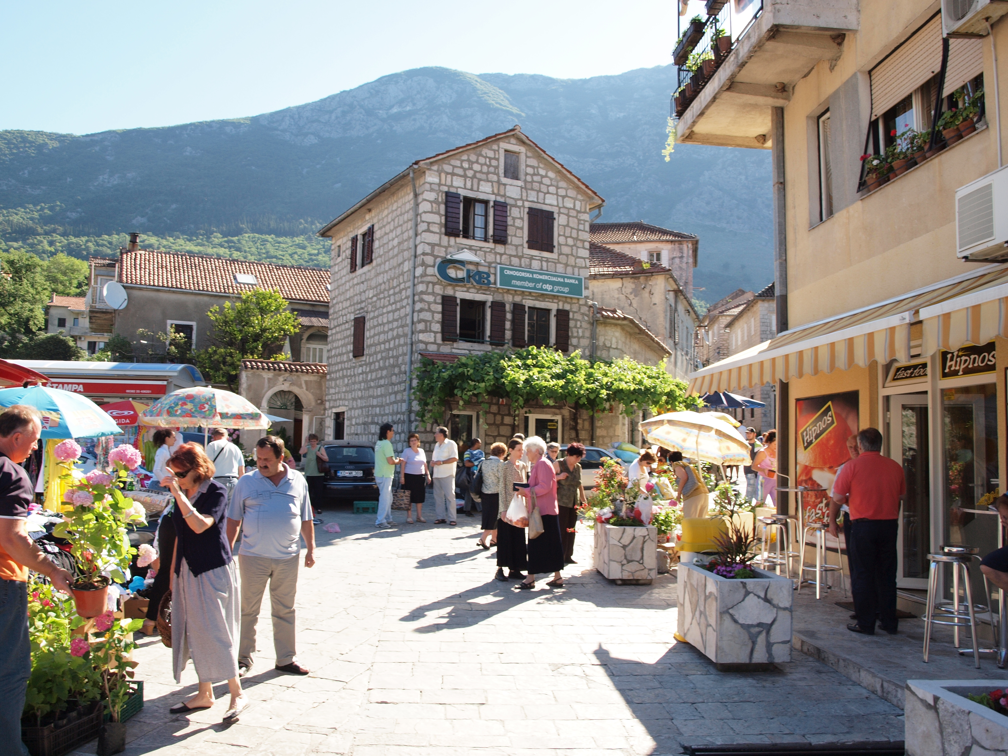 Market Risan, Montenegro